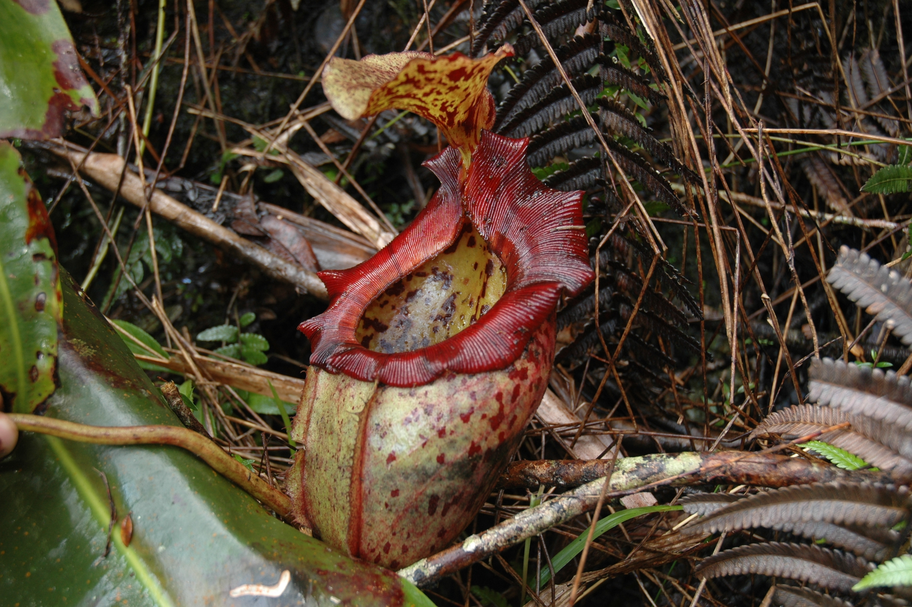 Nepenthes x alisaputrana Kinabalu by Jeremiah Harris